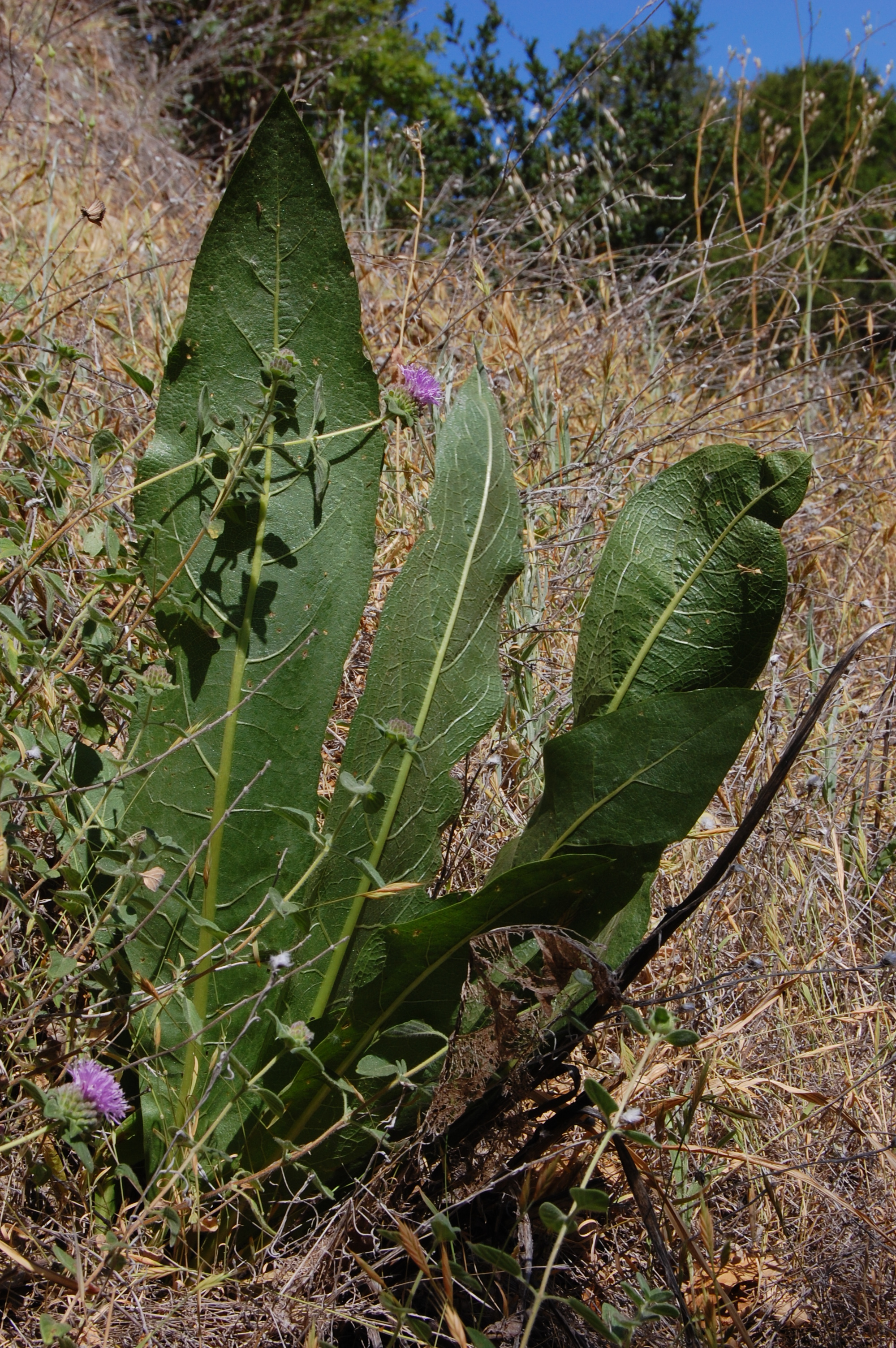 Coast Range Mule's Ears. Wyethia glabra. Made in Almaden Quicksilver County Park, San Jose, California, USA. Identified with help of